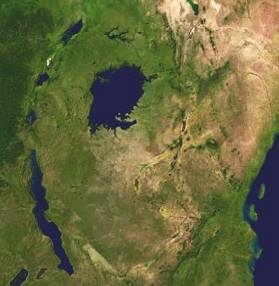 The Great Lakes of Africa as seen from space.